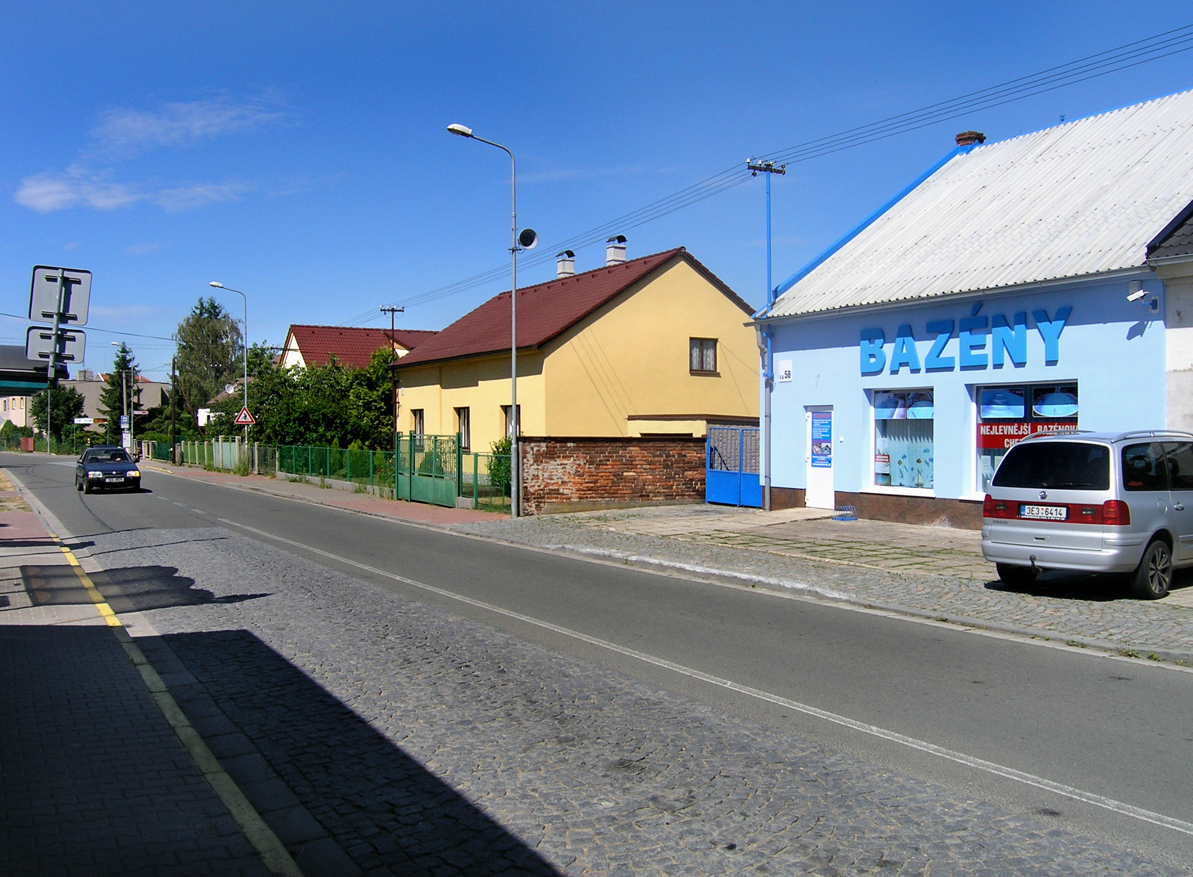 Žižkova street in Popkovice, part of Pardubice, Czech Republic